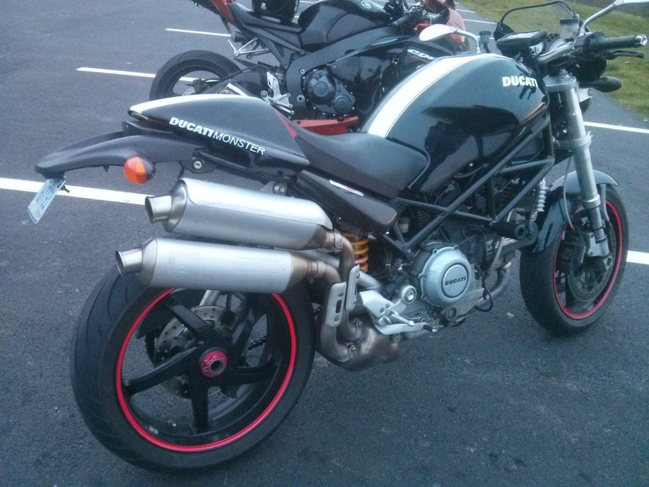 my black 2007 Ducati Monster S2R1000